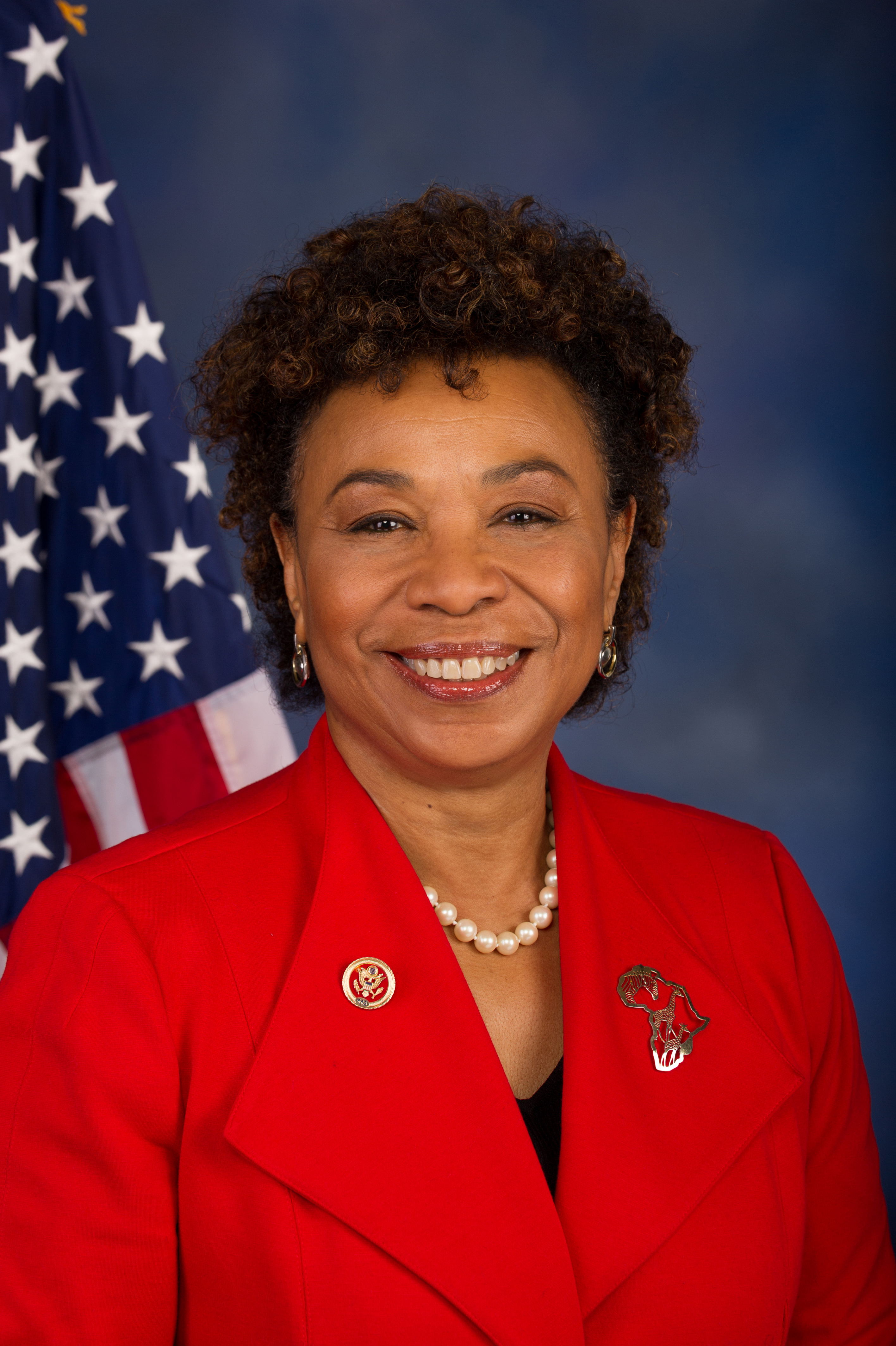 Barbara Lee's official photo